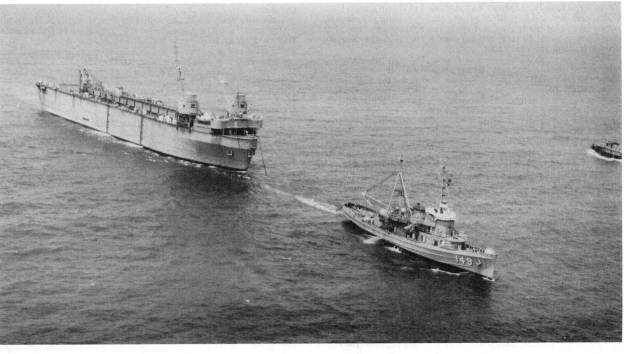 Atakapa (ATF-149) brings Oak Ridge (ARDM-1) into Rota, Spain, 26 June 1964, in this view taken by Photographer 1st Class J. A. Kerry. (USN 1104547)